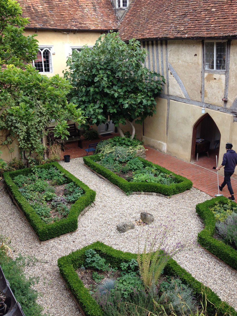 The Abbey, Sutton Courtenay, Oxfordshire, England